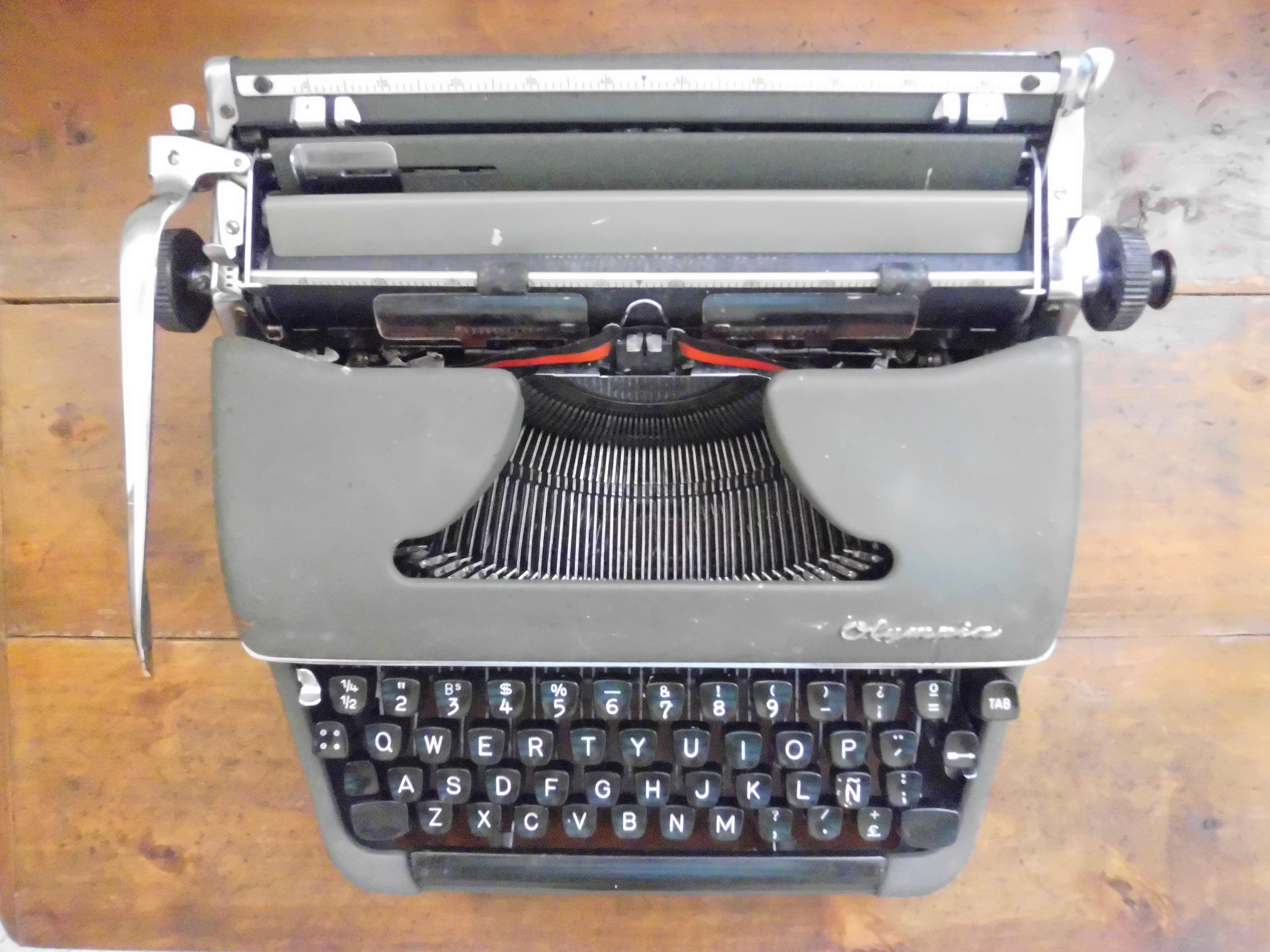 Olympia Typewriter SM3 from Western Germany (out of focus)